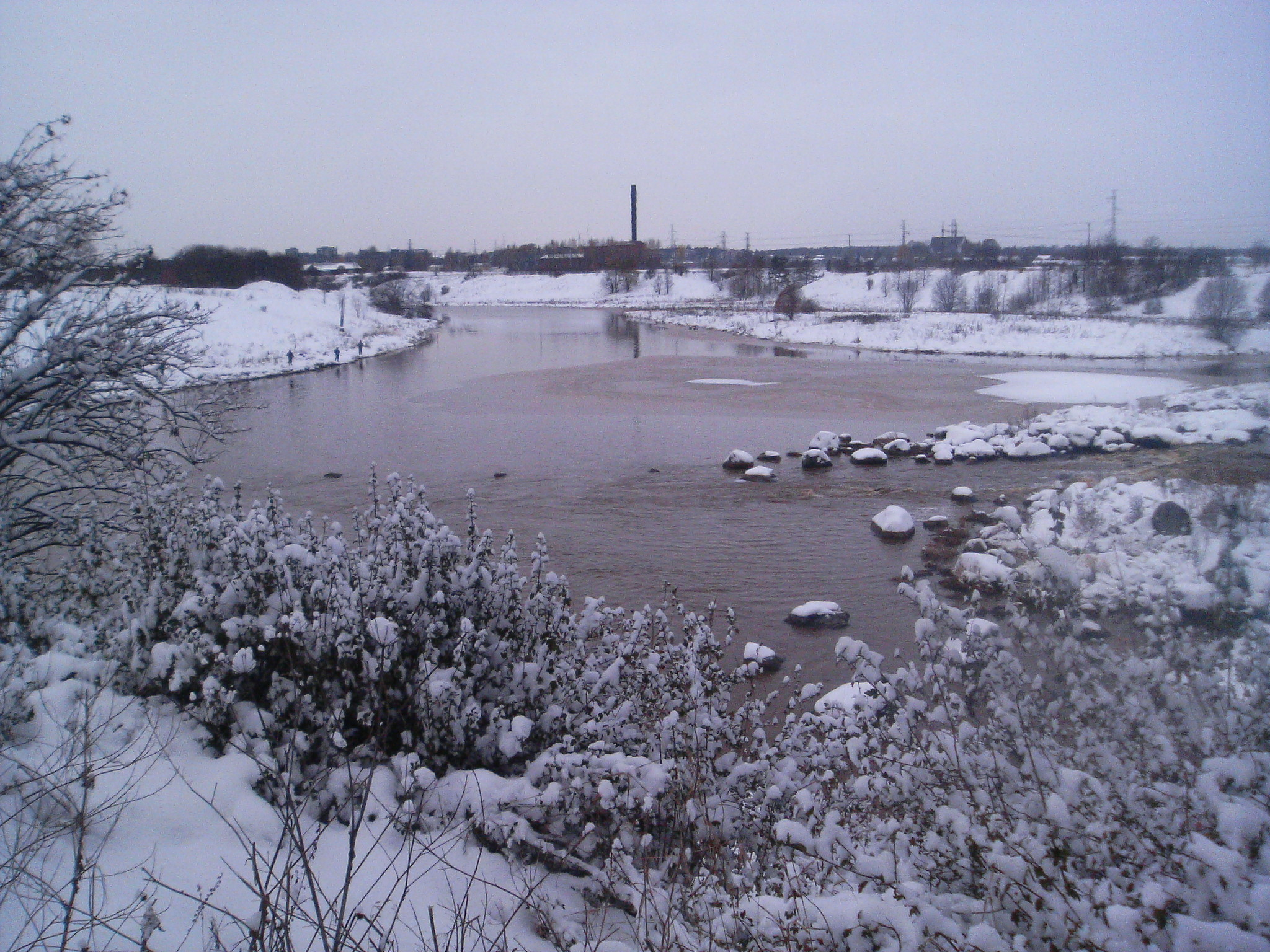 Halinen, Turku, Finland :) There are some people fishing over there!